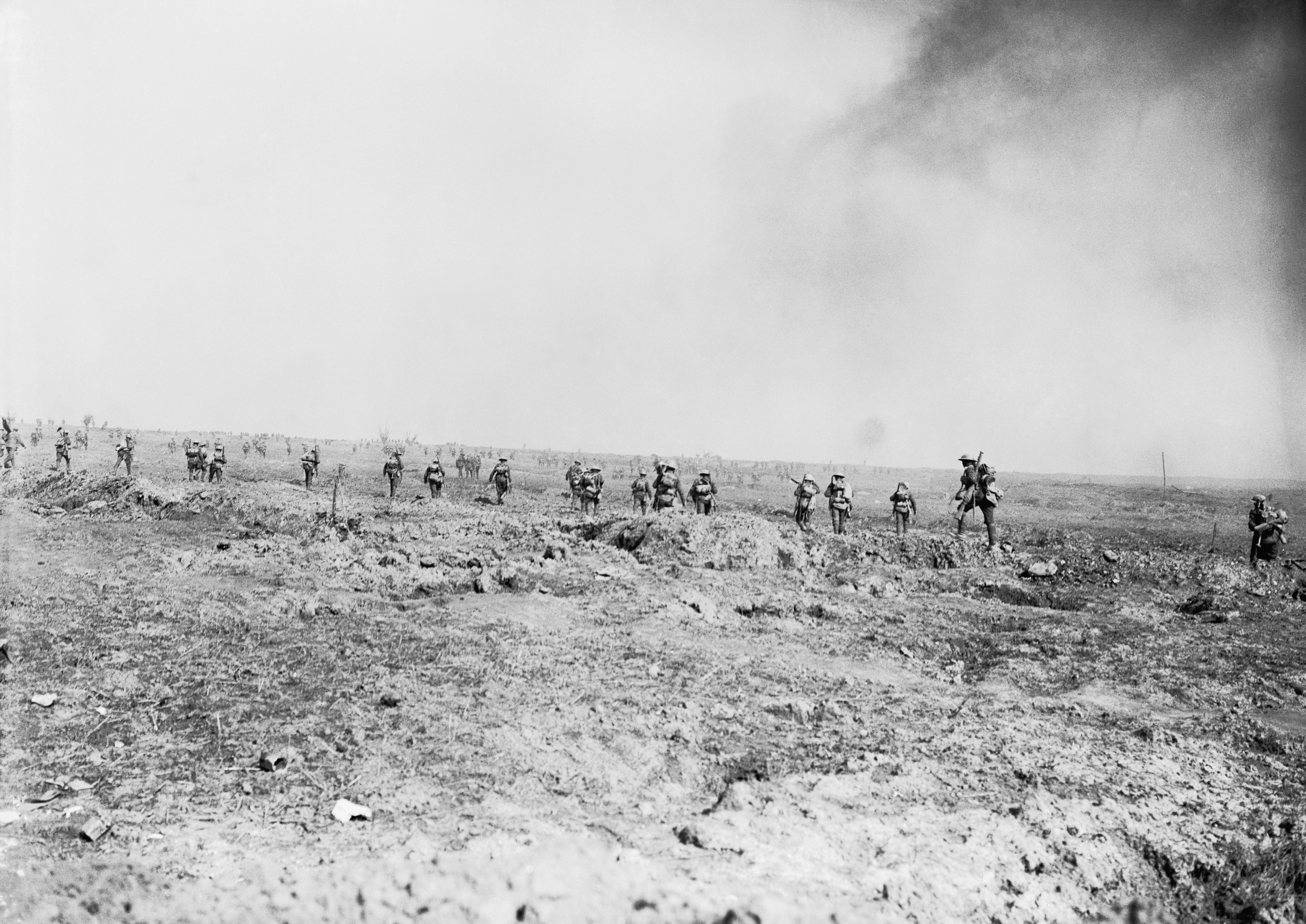 The Battle of Ginchy, Somme, France. British supporting infantry walk forward up the slope into the bombardment.